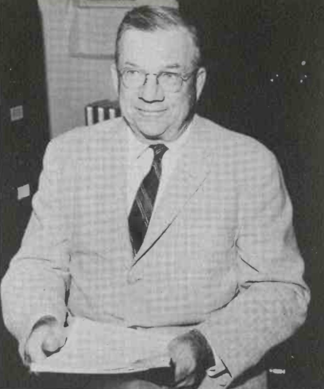 University of Arizona Wildcats men’s basketball coach from the 1960 “Desert” yearbook.